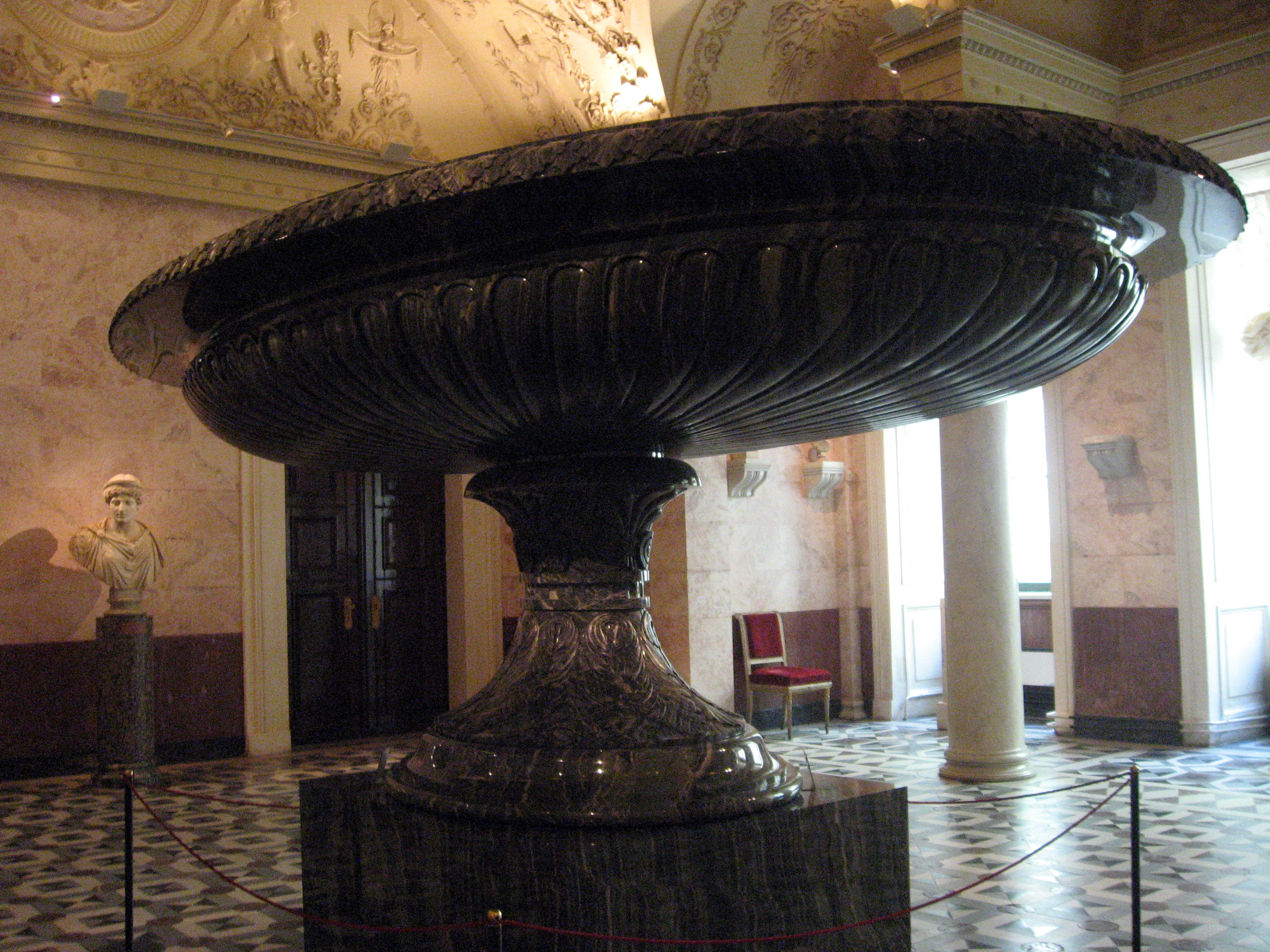 Ermitáž